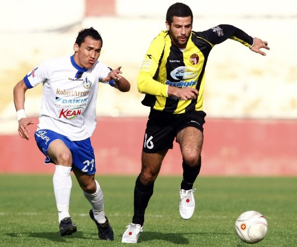 Picture of Stephen Wellman.